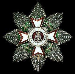 The Order of St. Charles